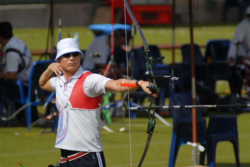 Photo taken by Andy MacDonald at the AIS Invitational Canberra 2008